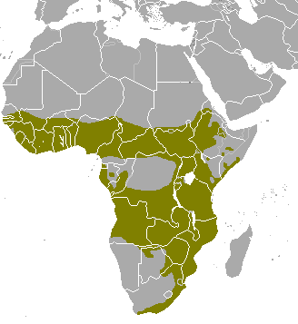 Range map of Tragelaphus scriptus accodring to IUCN SSC Antelope Specialist Group 2008. Tragelaphus scriptus. In: IUCN 2011. IUCN Red List of Threatened Species. Version 2011.2. . Downloaded on 24 May 2012.